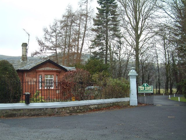 Gatehouse to Ballindean Estate. "Teen Ranch" is located in the grounds of Ballindean Estate